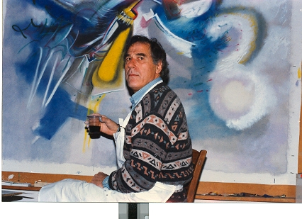 The srtist at work in his studio in Milan.